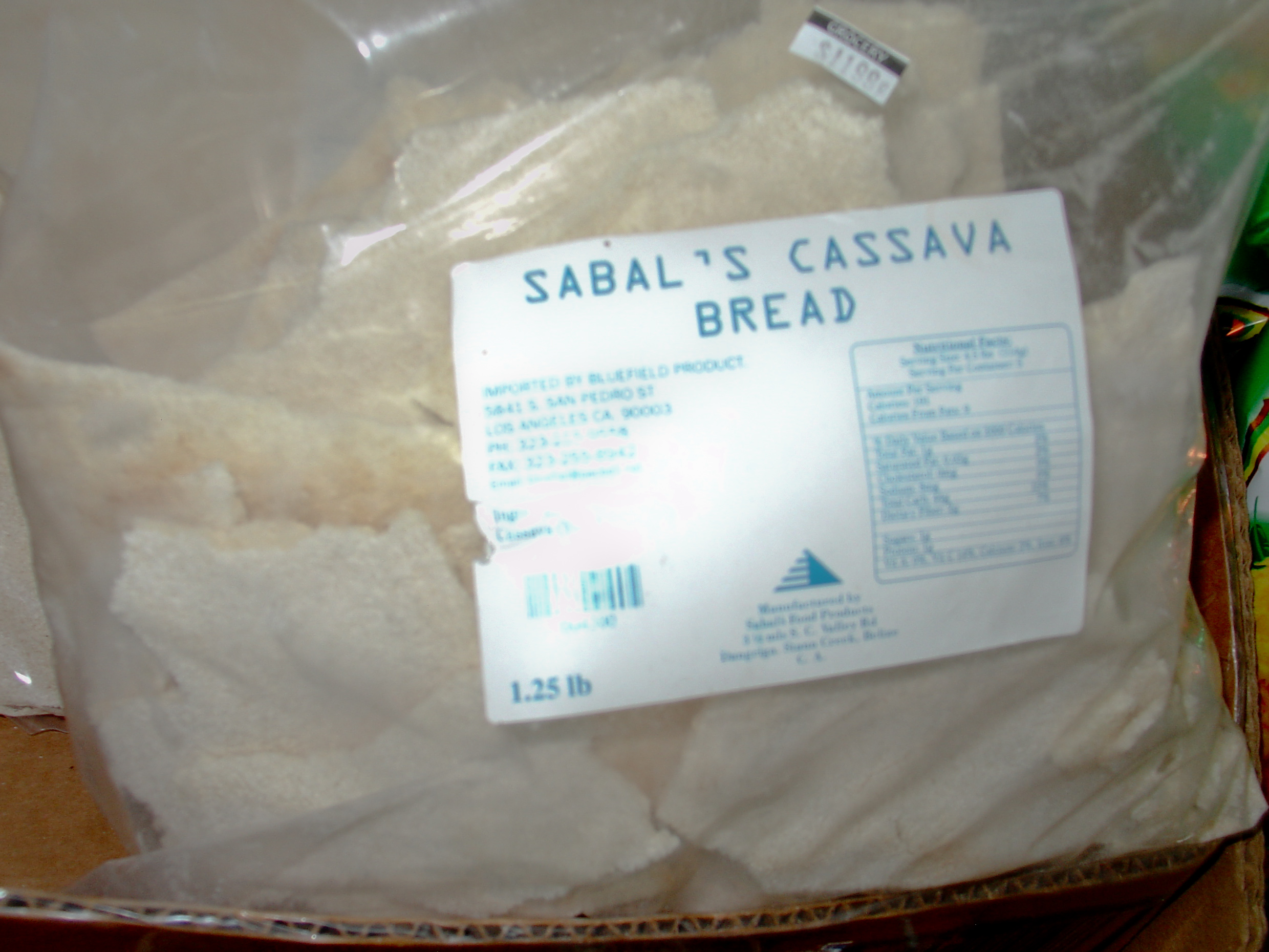 Cassava bread sold at a Los Angeles market.